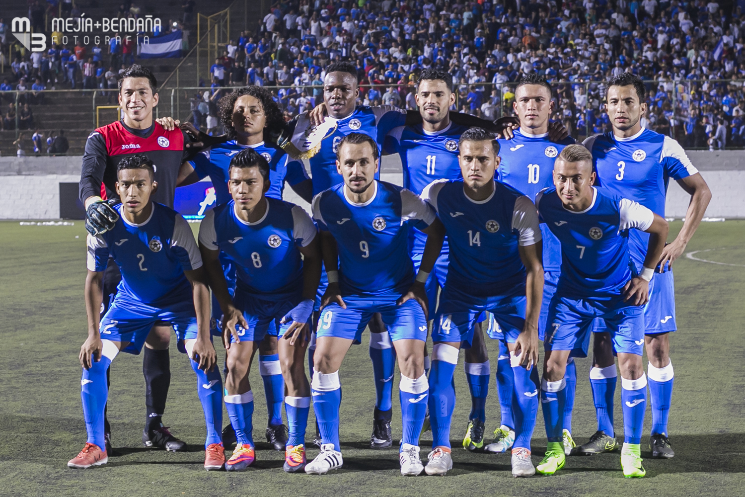 NICARAGUA VS. HAITI 3 - 0